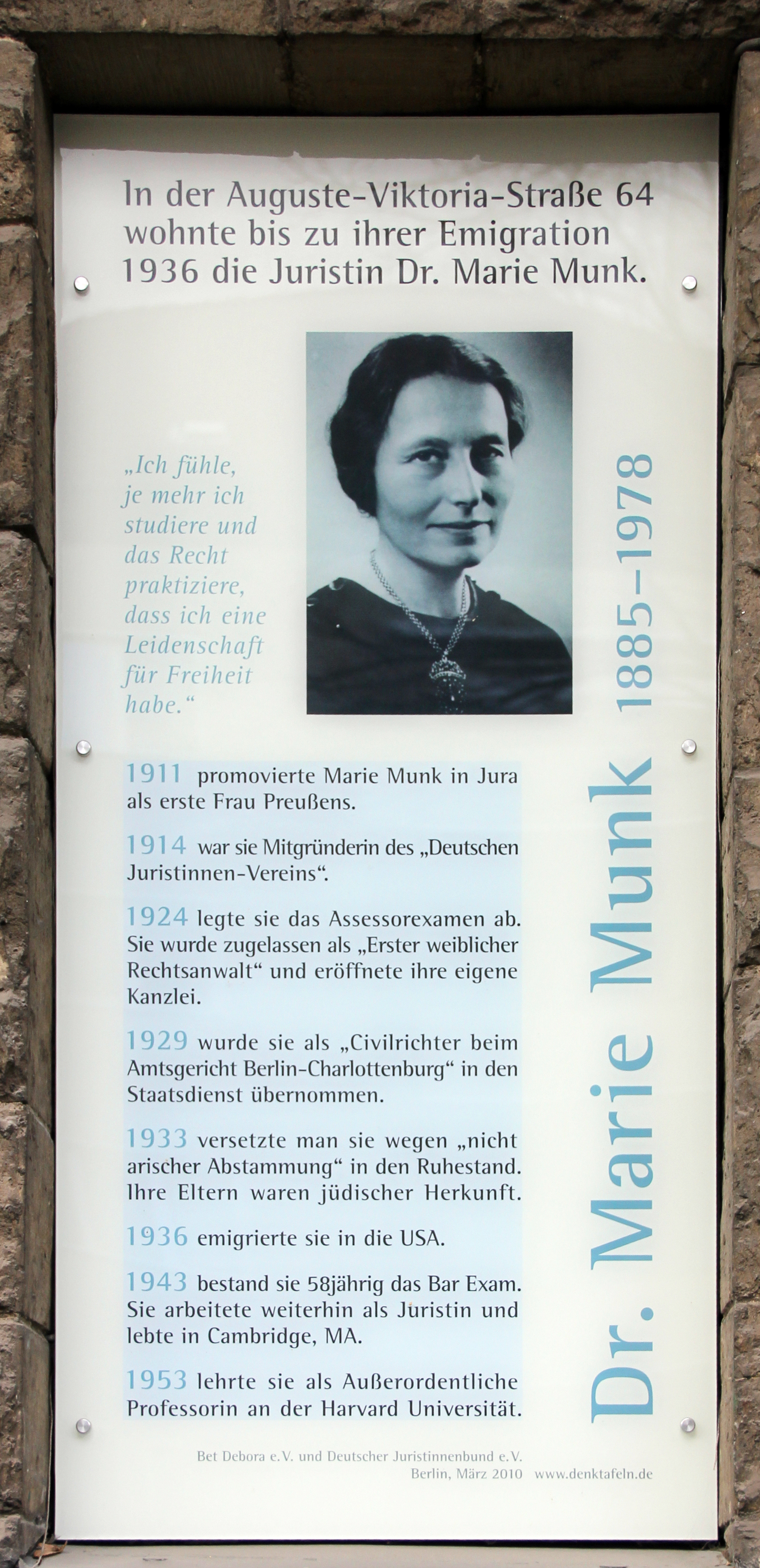 Memorial plaque, Marie Munk, Auguste-Viktoria-Straße 64, Berlin-Wilmersdorf, Germany